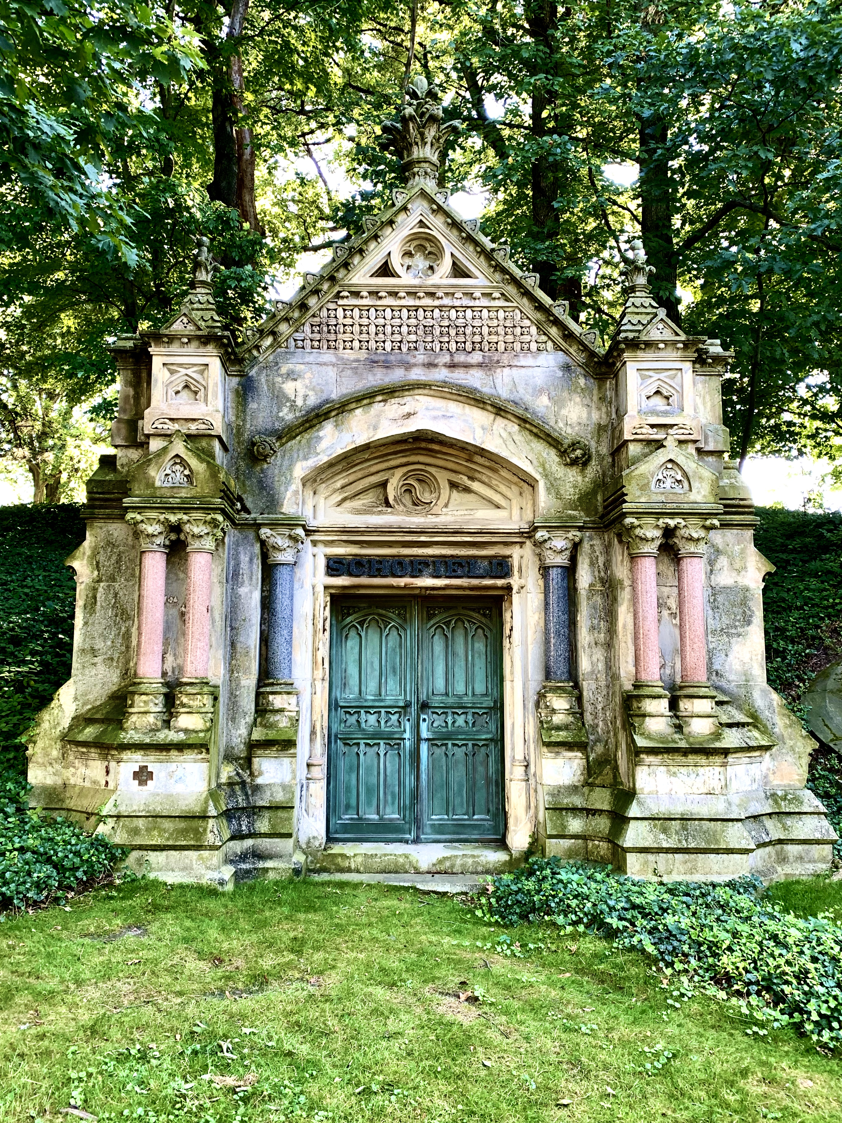 Image of Schofield family mausoleum at Lake View Cemetery in Cleveland, Ohio.